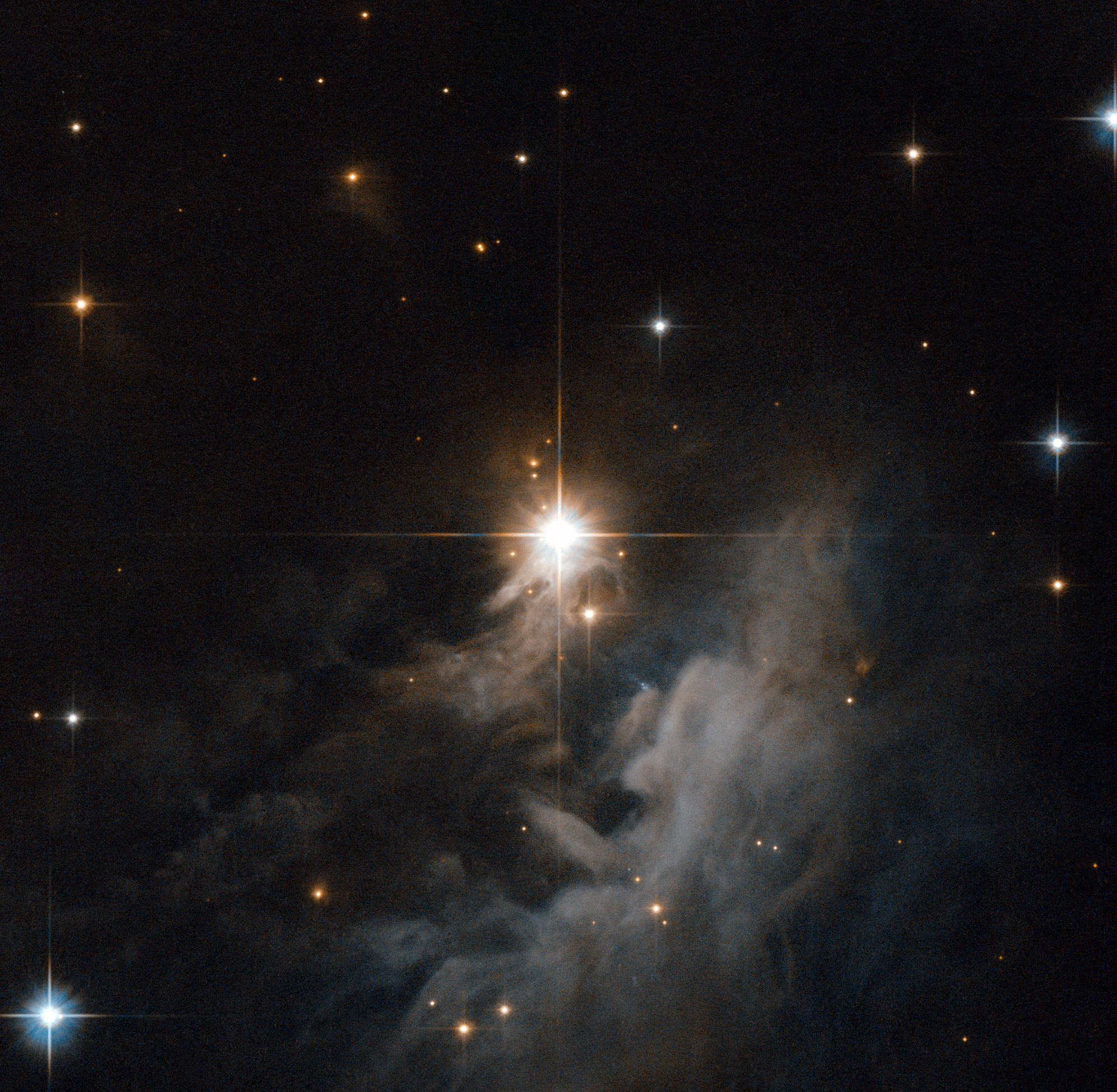 The pearly wisps surrounding the central star IRAS 10082-5647 in this Hubble image certainly draw the eye towards the heavens. The divine-looking cloud is a reflection nebula, made up of gas and dust glowing softly by the reflected light of nearby stars, in this case a young Herbig Ae/Be star. The star, like others of this type, is still a relative youngster, only a few million years old. It has not yet reached the so-called main sequence phase, where it will spend around 80% of its life creating energy by burning hydrogen in its core. Until then the star heats itself by gravitational collapse, as the material in the star falls in on itself, becoming ever denser and creating immense pressure which in turn gives off copious amounts of heat. Stars only spend around 1% of their lives in this pre-main sequence phase. Eventually, gravitational collapse will heat the star’s core enough for hydrogen fusion to begin, propelling the star into the main sequence phase, and adulthood. The Advanced Camera for Surveys aboard the Hubble Space Telescope captured the whorls and arcs of this nebula, lit up with the light from IRAS 10082-5647. Visible (555 nm) and near-infrared (814 nm) filters were used, coloured blue and red respectively. The field of view is around 1.3 by 1.3 arcminutes.